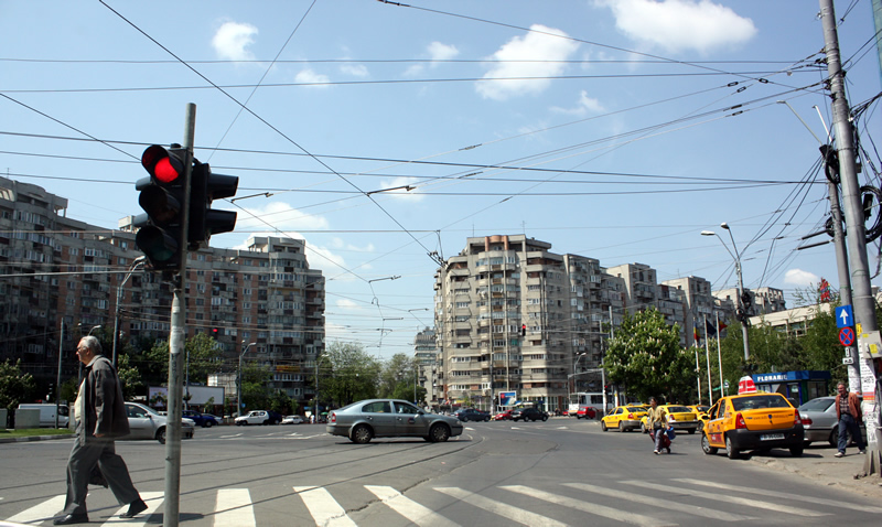 Piata Iancului in Bucharest, Romania